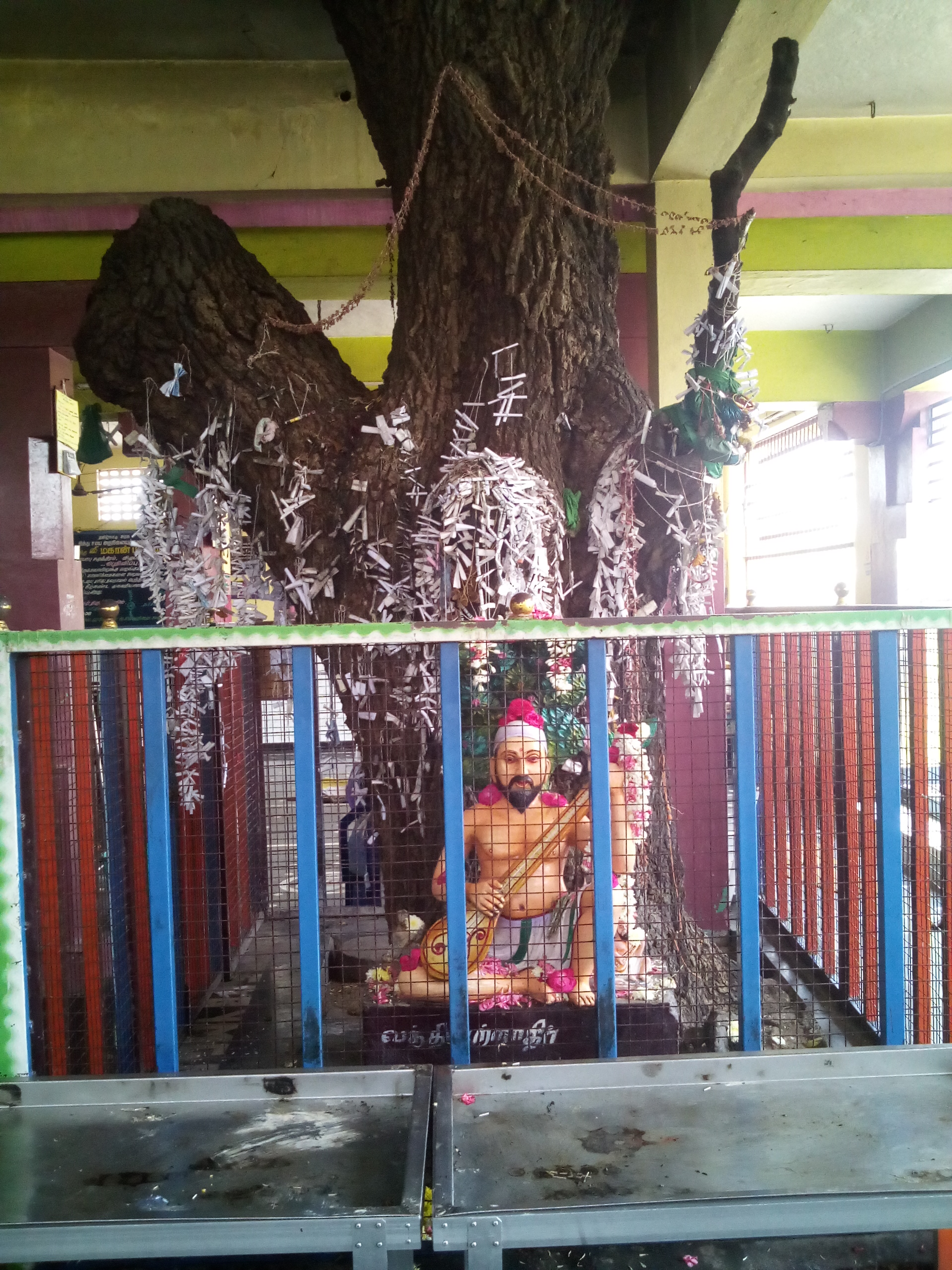 This file is my own work.